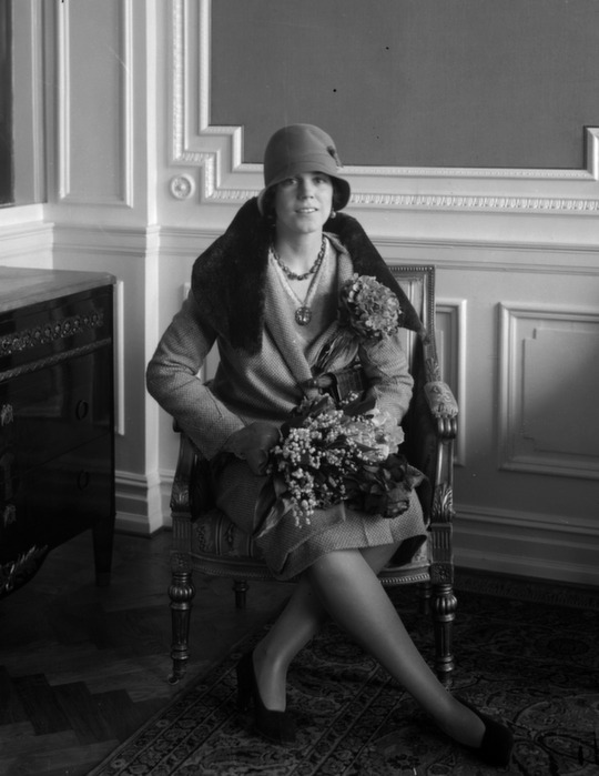 Estelle Manville Bernadotte af Wisborg Ekstrand (1904-1984), a leader in the International Red Cross and Girl Scout movements, Her first husband was Count Folke Bernadotte of Sweden, who was assassinated in Israel in September 1948 while serving as United Nations mediator.